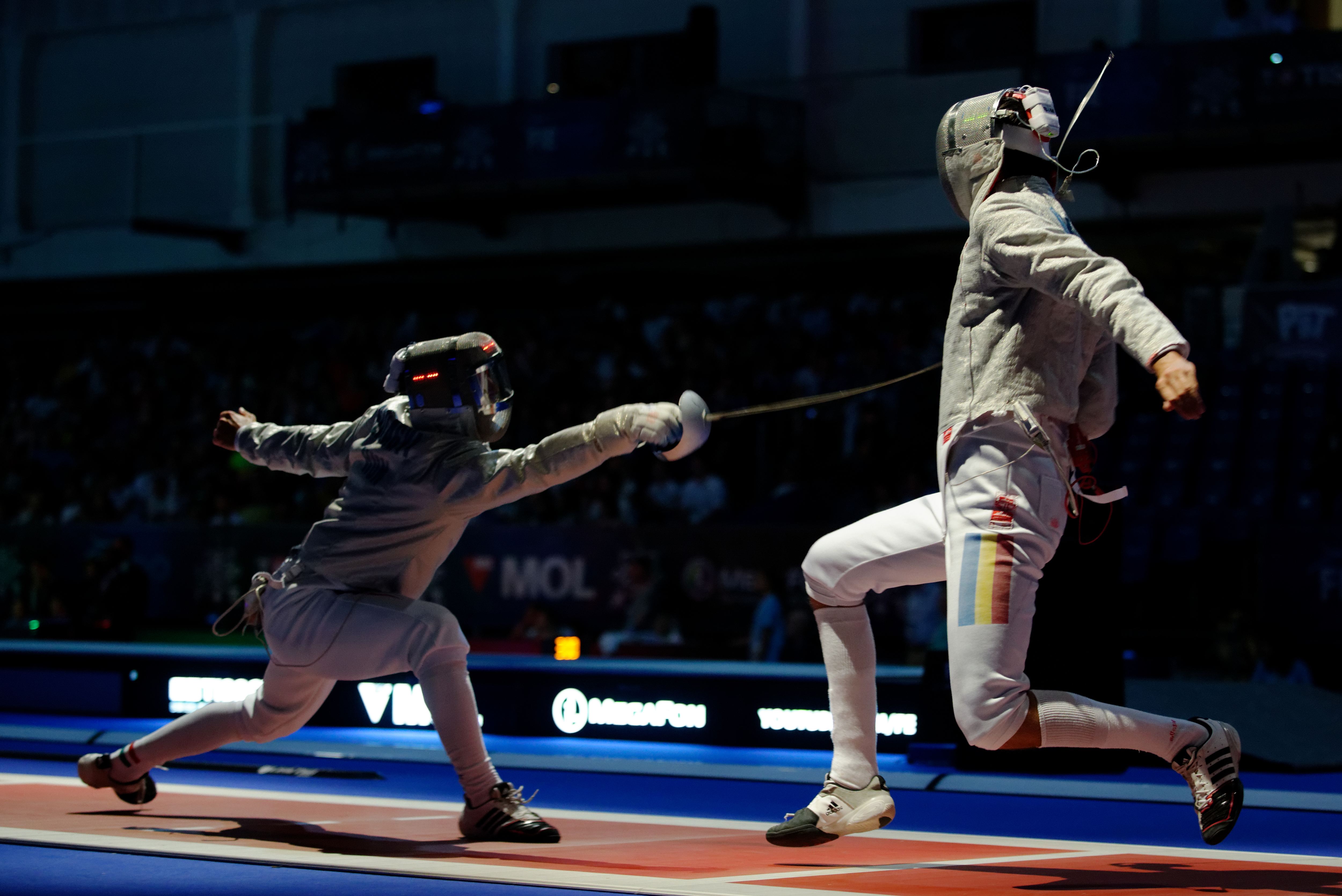 Hungary's Áron Szilágyi (L) fences Ciprian Gălățanu of Romania in the table of 32 of the men's sabre event of the 2013 World Fencing Championships 2013 at Syma Hall in Budapest on 7 August 2013.